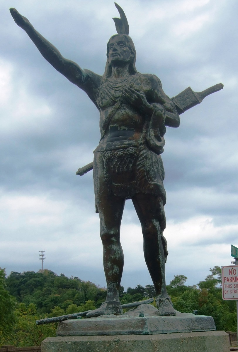 "The Mingo" Statue on National Road, Wheeling Hill in Wheeling, WV. Plaque text: "Original inhabitant of this valley extends greetings and peace to all wayfarers. Presented to the City of Wheeling by The Kiwanis Club and Geo. W. Lutz, 1928"